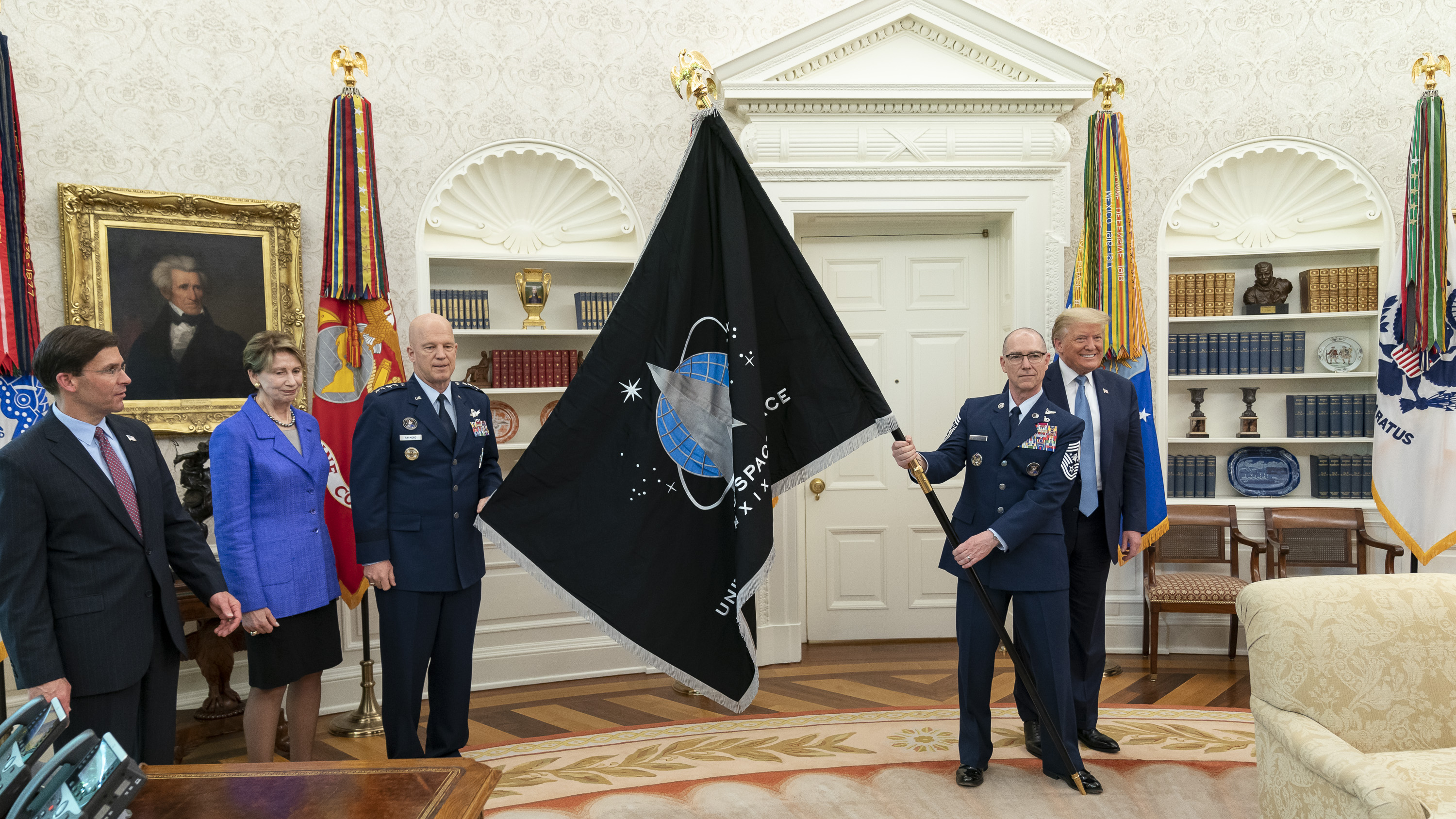 US Space Force CSO GEN Jay Raymond and US Space Force Senior Enlisted Advisor CMSgt Roger Towberman present President Donald J. Trump with the U.S. Space Force Flag Thursday, May 15, 2020, in the Oval Office of the White House. (Official White House Photo by Shealah Craighead)